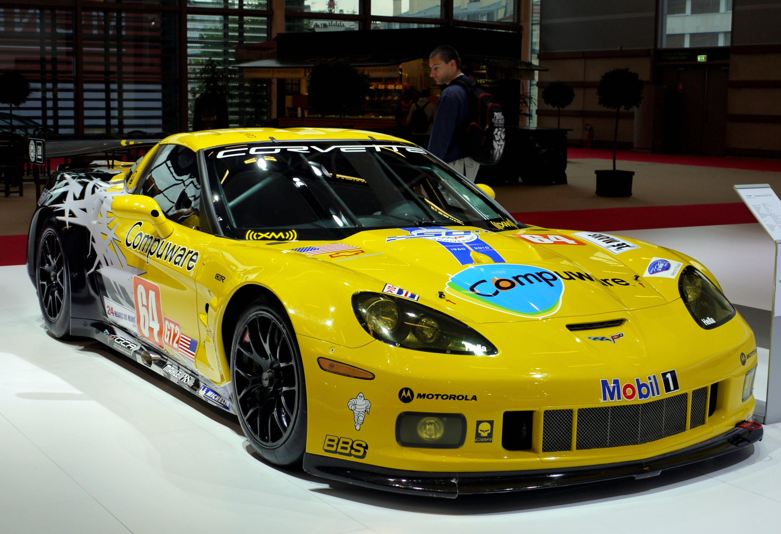 Corvette C6.R GT2 endurance racing.